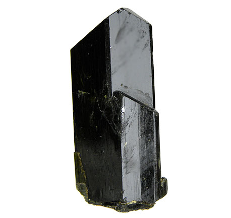 Epidote Locality: Tormiq valley (Tormic; Tormik; Tormig; Turmiq), Haramosh Mts., Skardu District, Baltistan, Northern Areas, Pakistan (Locality at ) Size: 3.3 x 1.4 x 1.0 cm. These epidote specimens are seemingly identical to the classic Alpine specimens from Europe, and in certain instances, have surpassed the European specimens for quality and gemminess. This particular specimen is a very sharp, highly lustrous, gemmy, coffee-brown to "root beer" to dark olive-green color crystal group with good pleochroism when strongly backlit and textbook "sword"-shaped form.